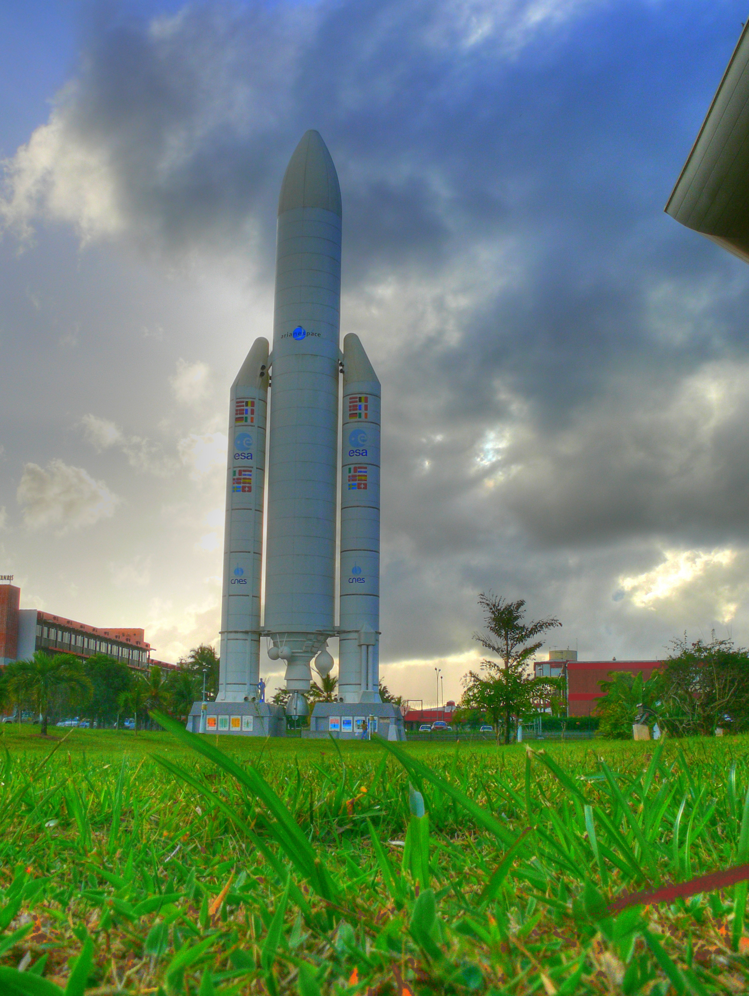 Ariane model at the entrance of the CSG (Centre Spatial Guyanais) - Edited with The Gimp to remove the red tinting.